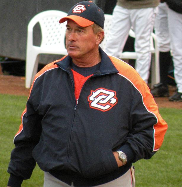 Hall of Famer Gary Carter welcomes his players to the field as the Orange County Flyers are introduced prior to game 1 of the 2008 Golden Baseball League championship series, in Calgary against the Calgary Vipers.